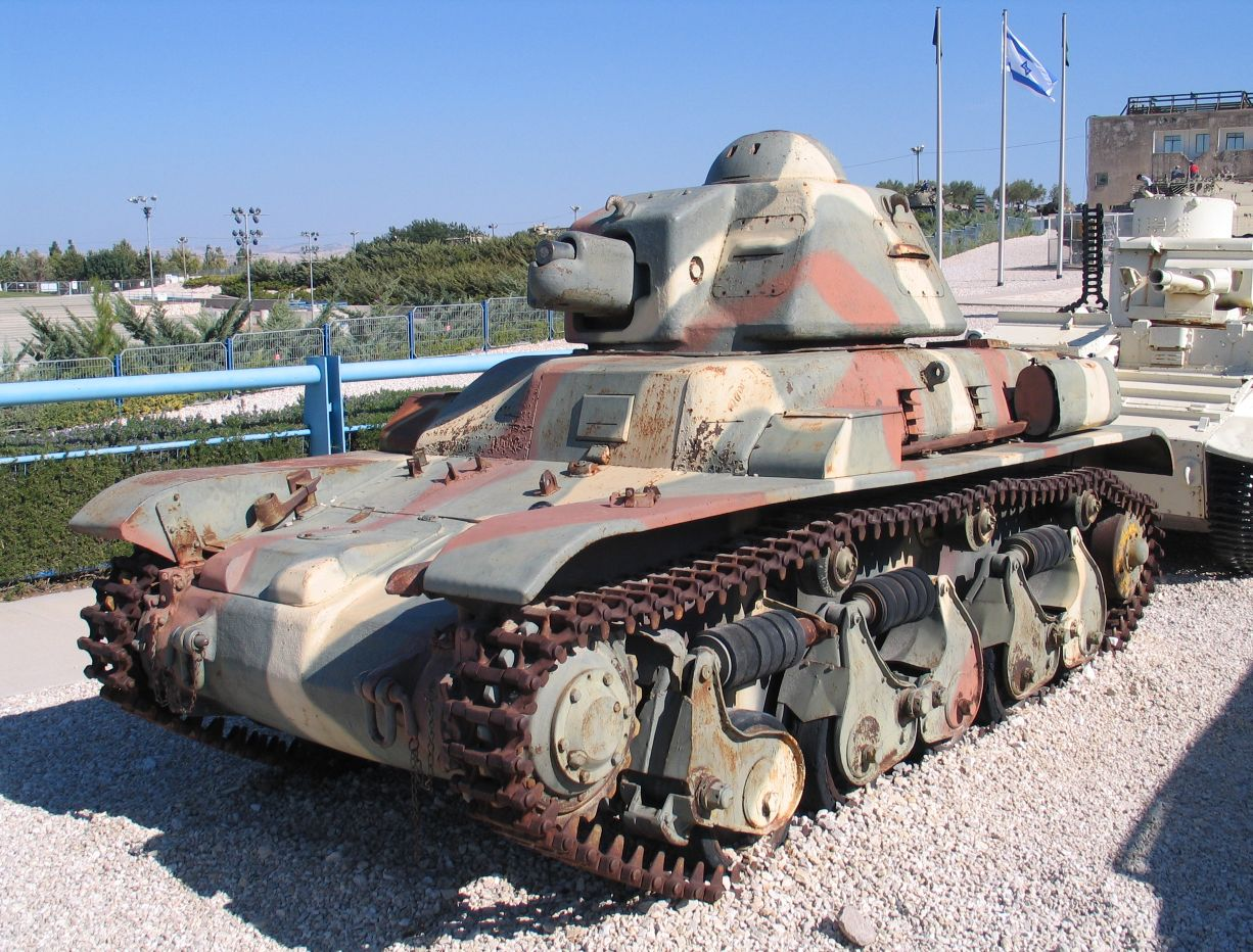 Description: Renault R-35 tank in Yad la-Shiryon Museum, Israel. 2005. Source: Photo by me, User:Bukvoed.